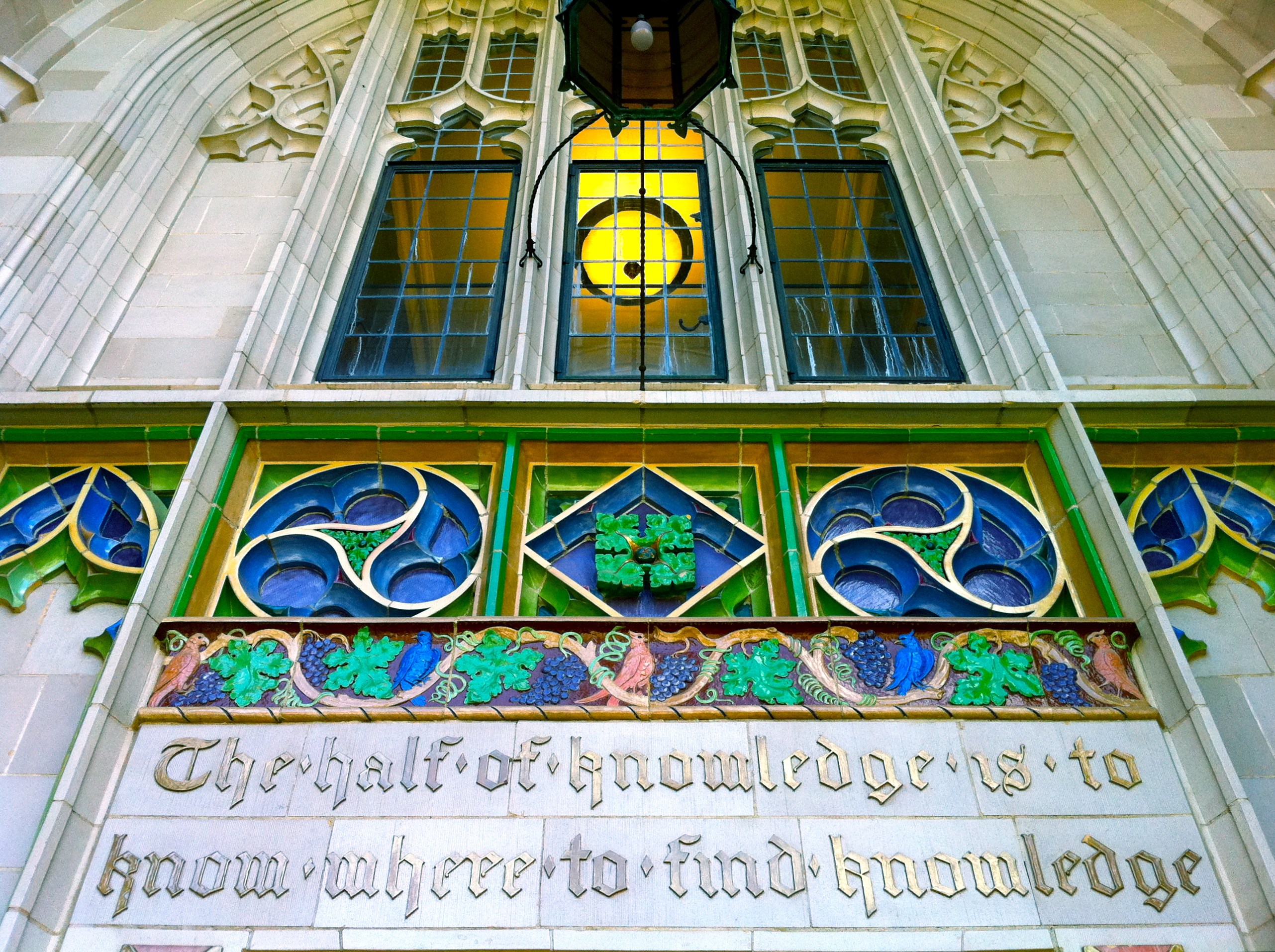 Entry to FSU